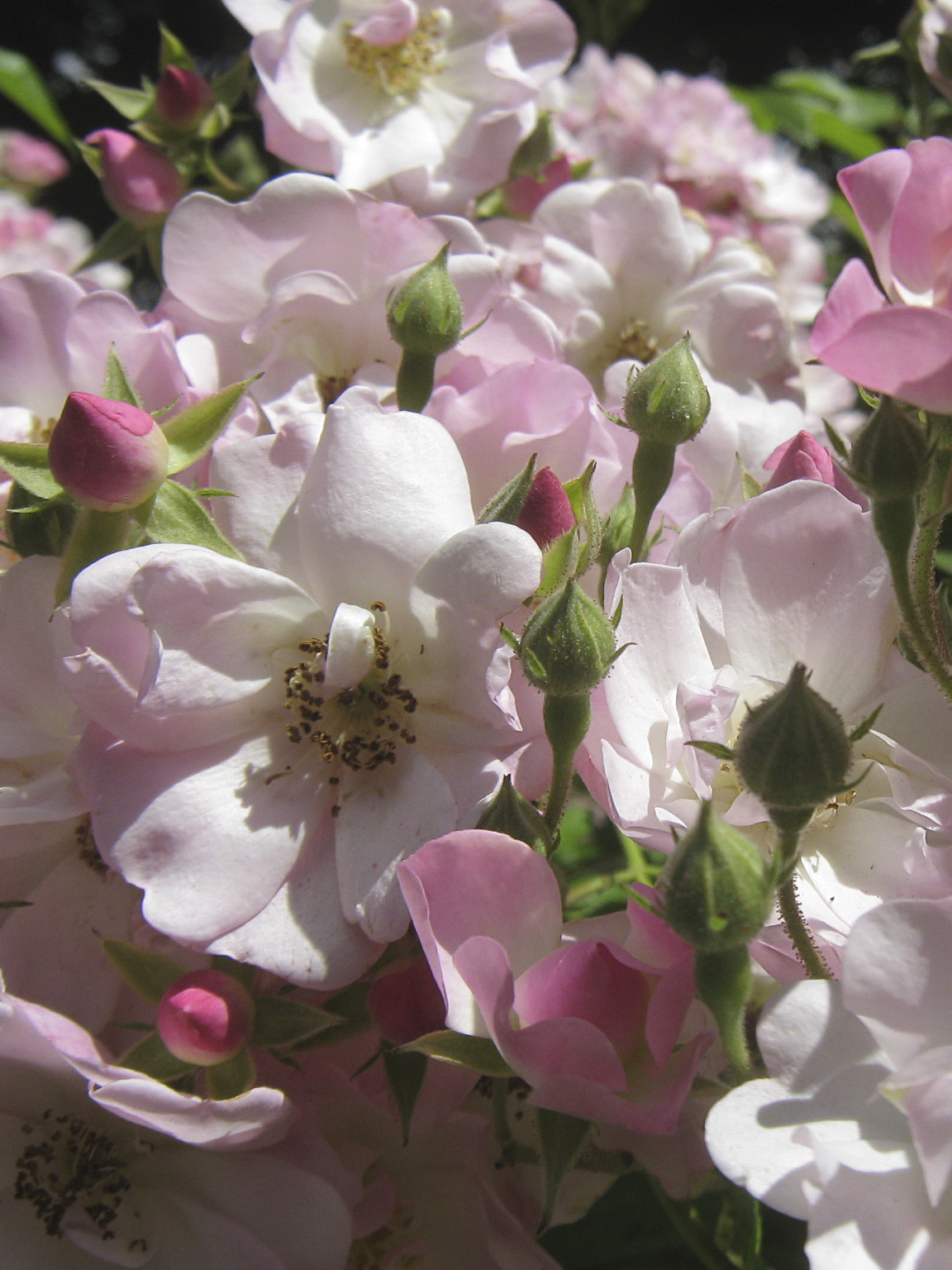 Rose 'Cherub', Hybrid Multiflora by Alister Clark 1923. Photographed in the Alister Clark Memorial Rose Garden, Bulla, Victoria